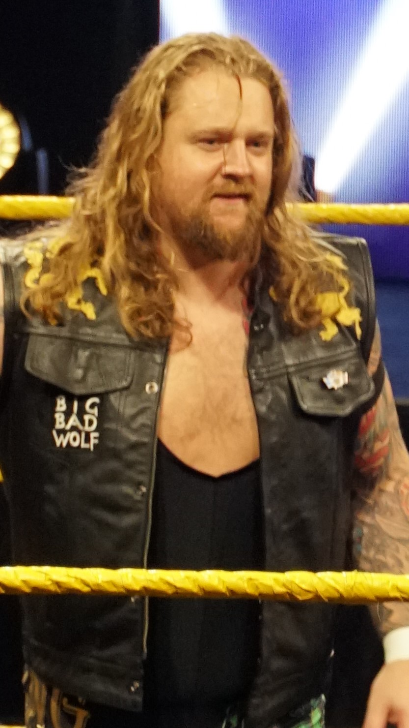 Wolfgang during WWE Axxess in April 2018.